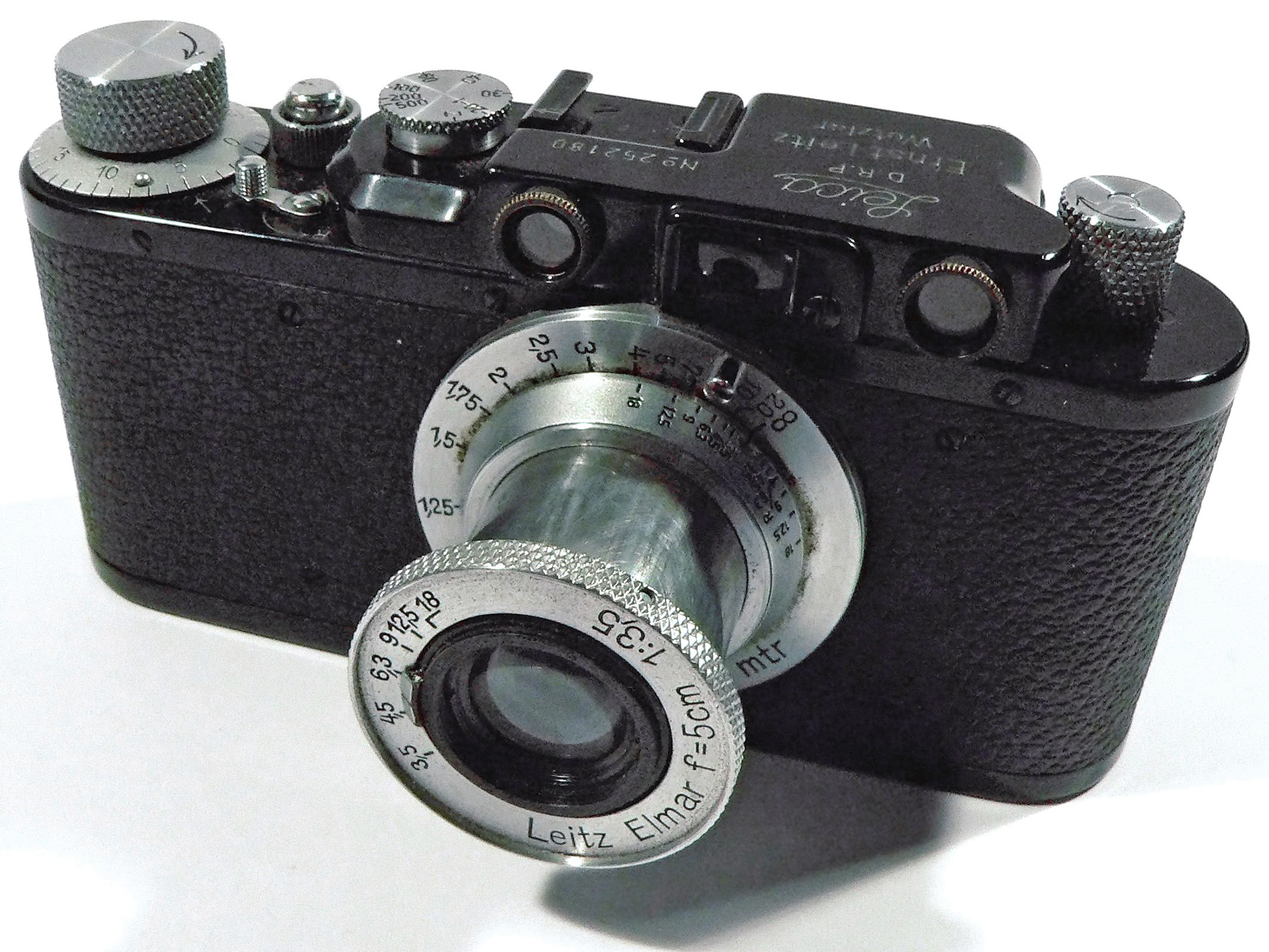 Leica II, a 135 film camera, 1932